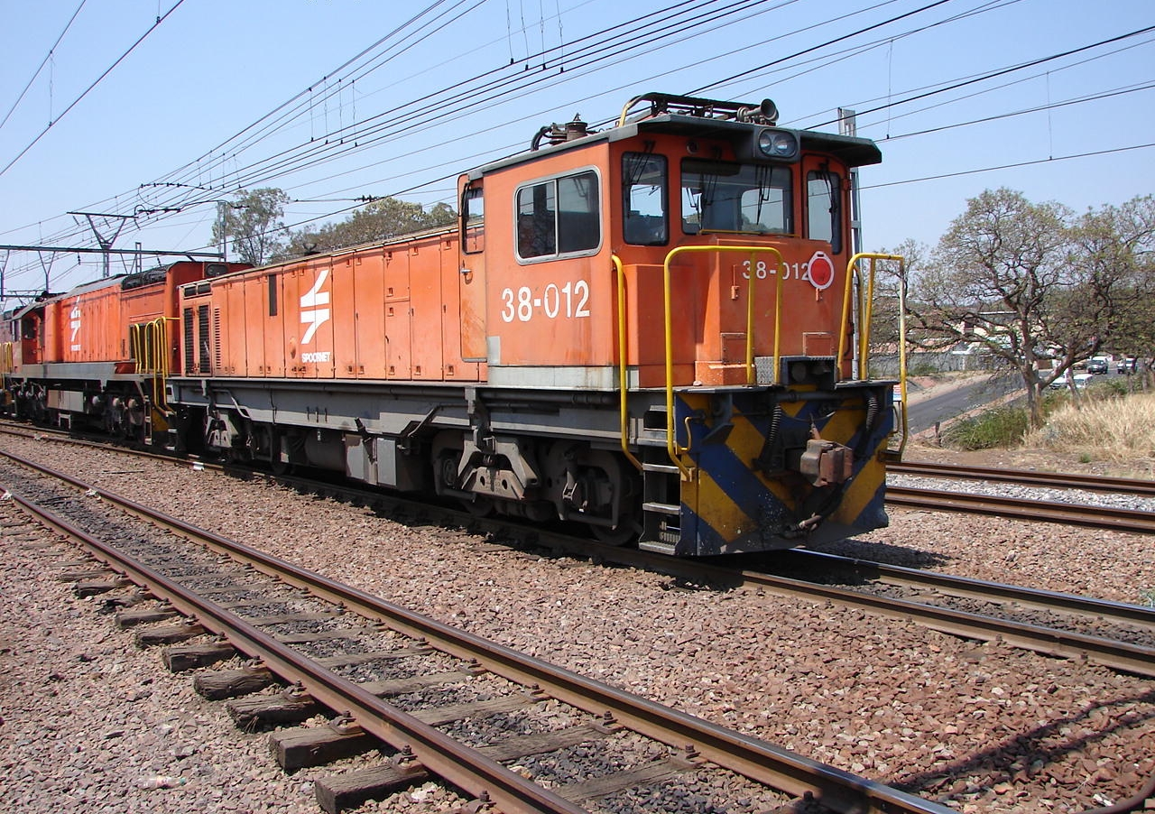 Spoornet Class 38-000 38-012 Location: Capital Park, Pretoria, Gauteng